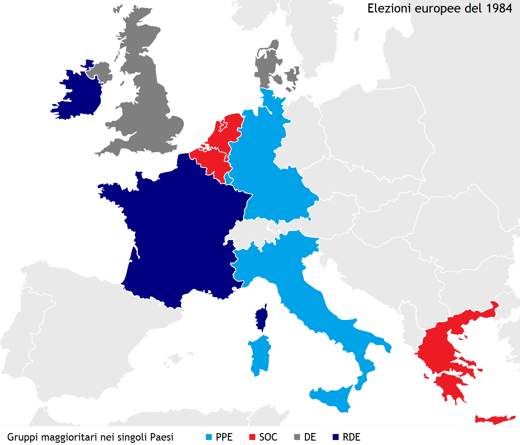 European Parliament election, 1984: majority groups in individual countries. The calculation is made on the basis of votes obtained by each national party that has obtained parliamentary representation.